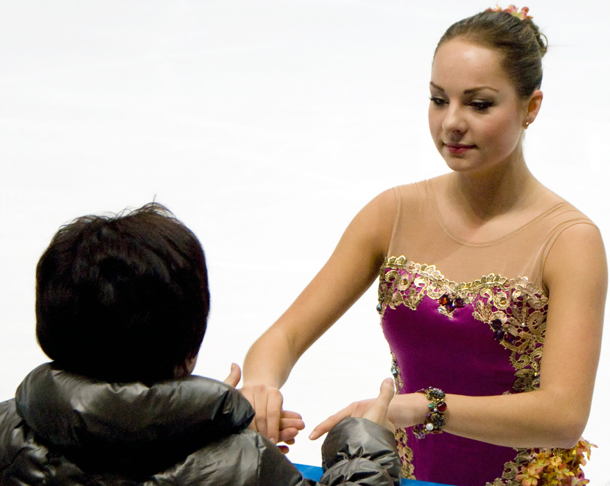 2010 Cup of Russia, free skating.